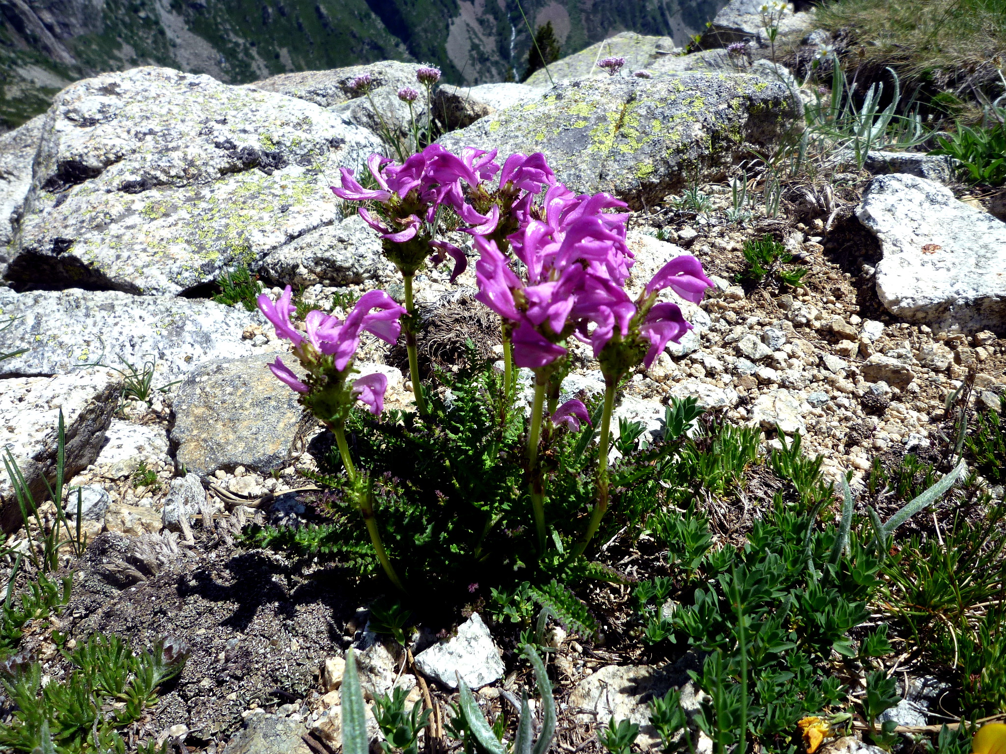 Pedicularis pyrenaica. In Cabdella (Pallars Jussà - Catalunya. To 2.240 m altitude